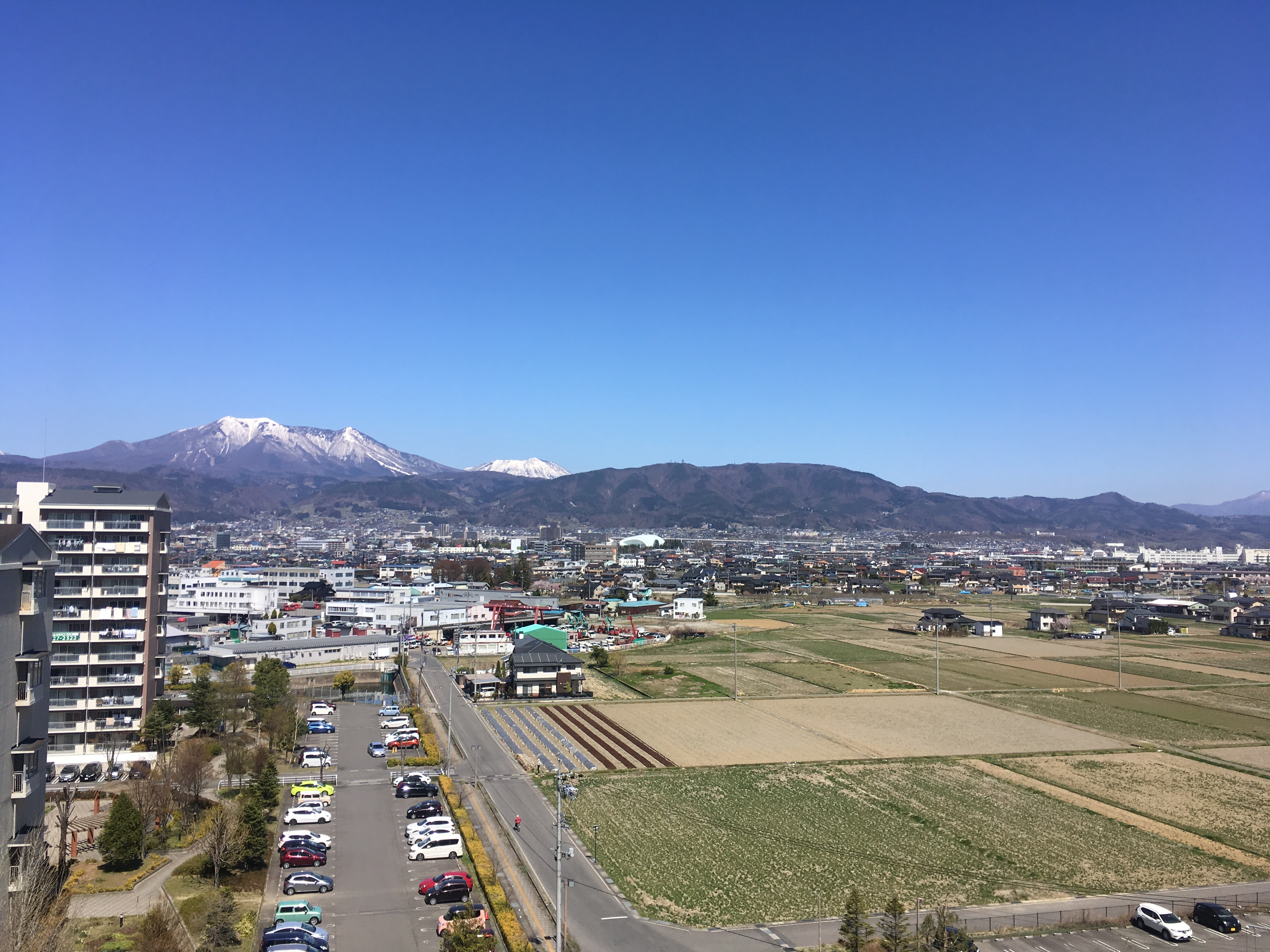 This is a longview photo of the Aqua Wing, taken from Asahi, Nagano, with Mt. Izuno in the distance.